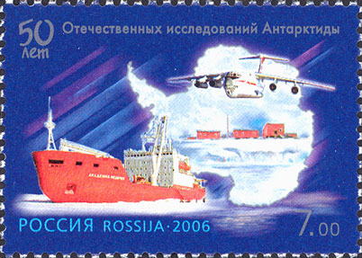 The 50th anniversary of the Russian Research of Antarctica. The Il-76TD transport aircraft and the research expedition ship “The Academician Feodorov”.